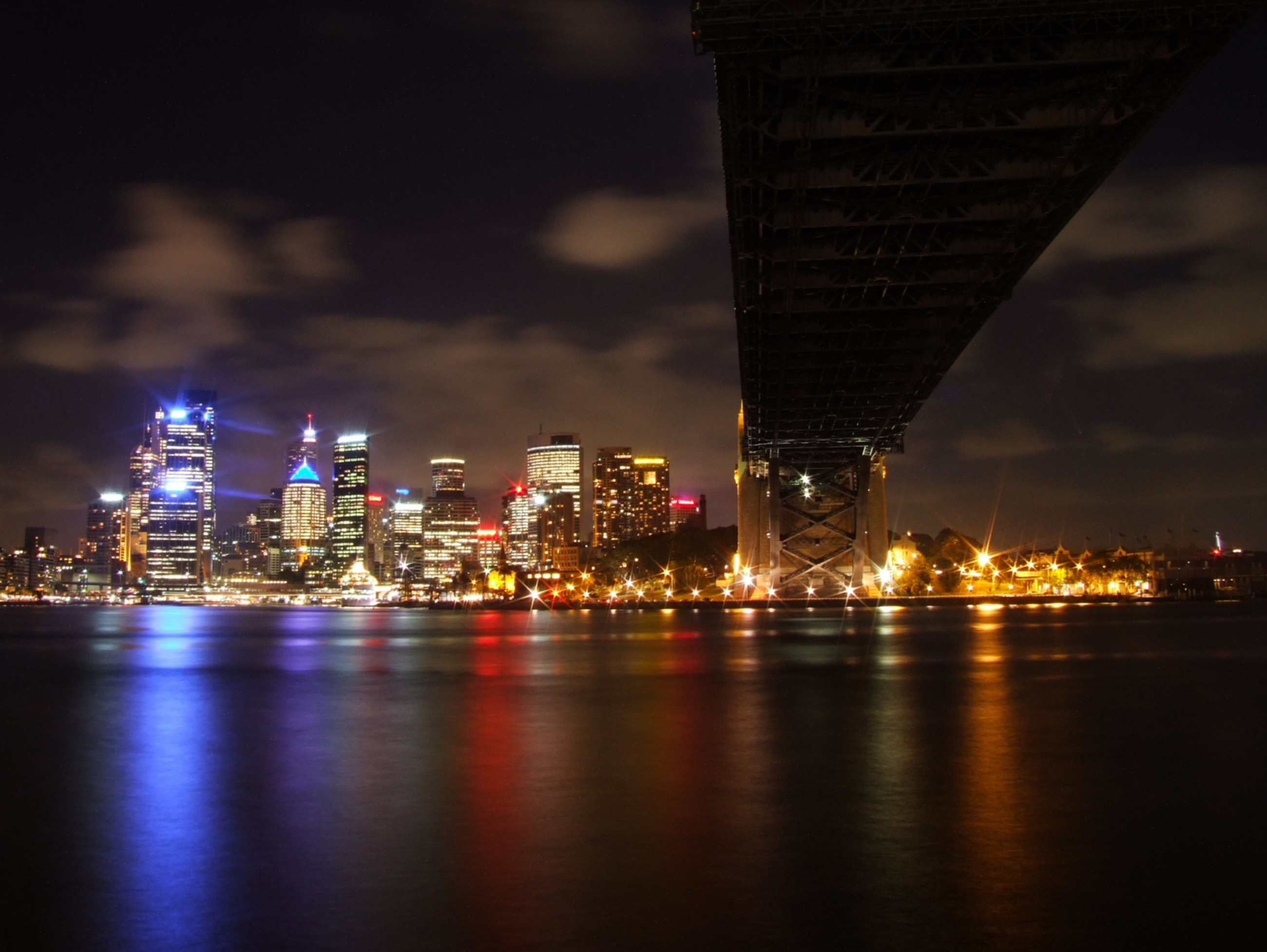 7th in Sydney_night series.